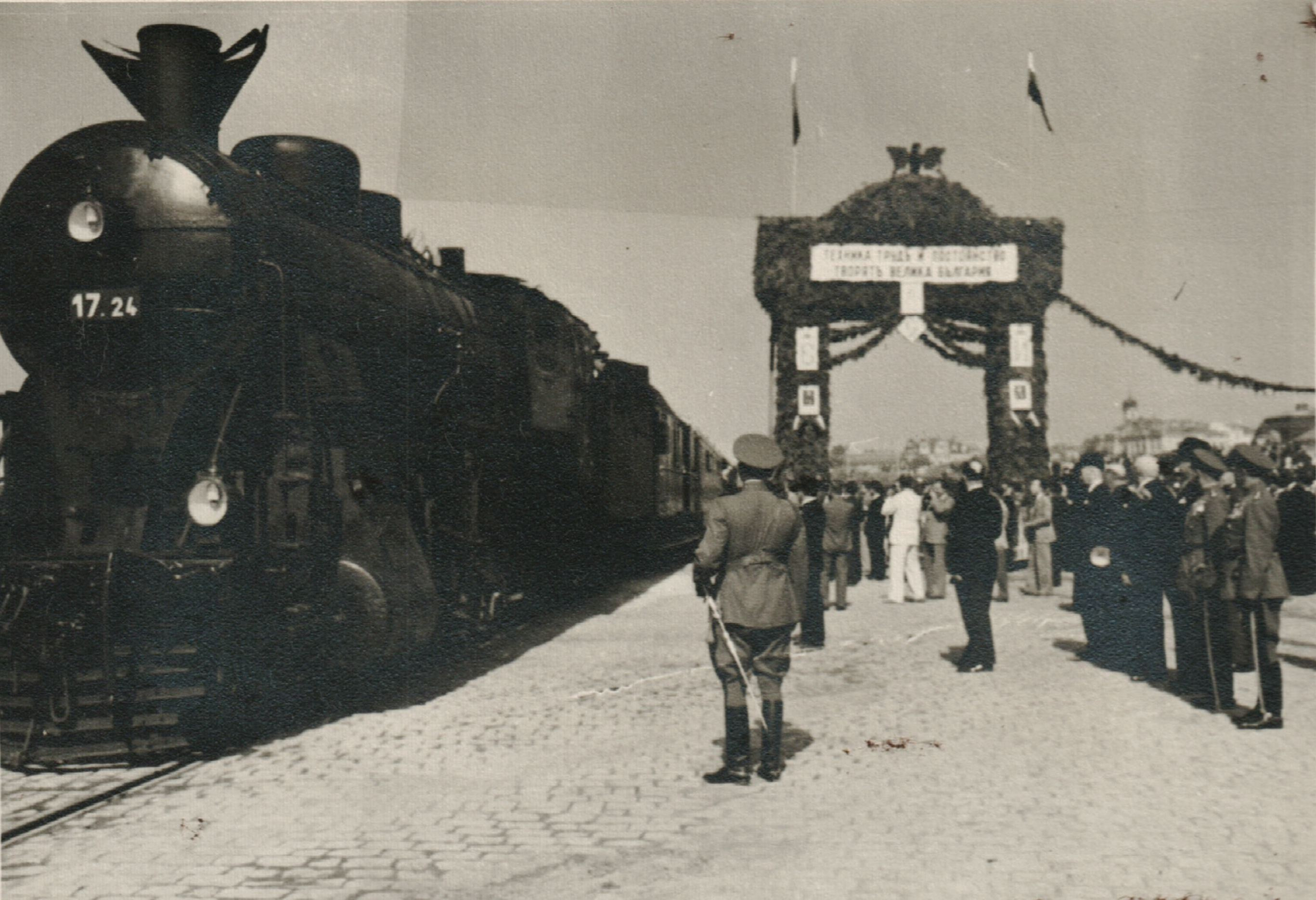 Burgas-Pomorie railway line, Bulgaria